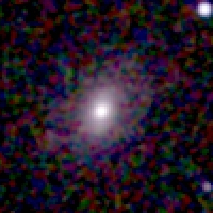 Galaxy NGC 437